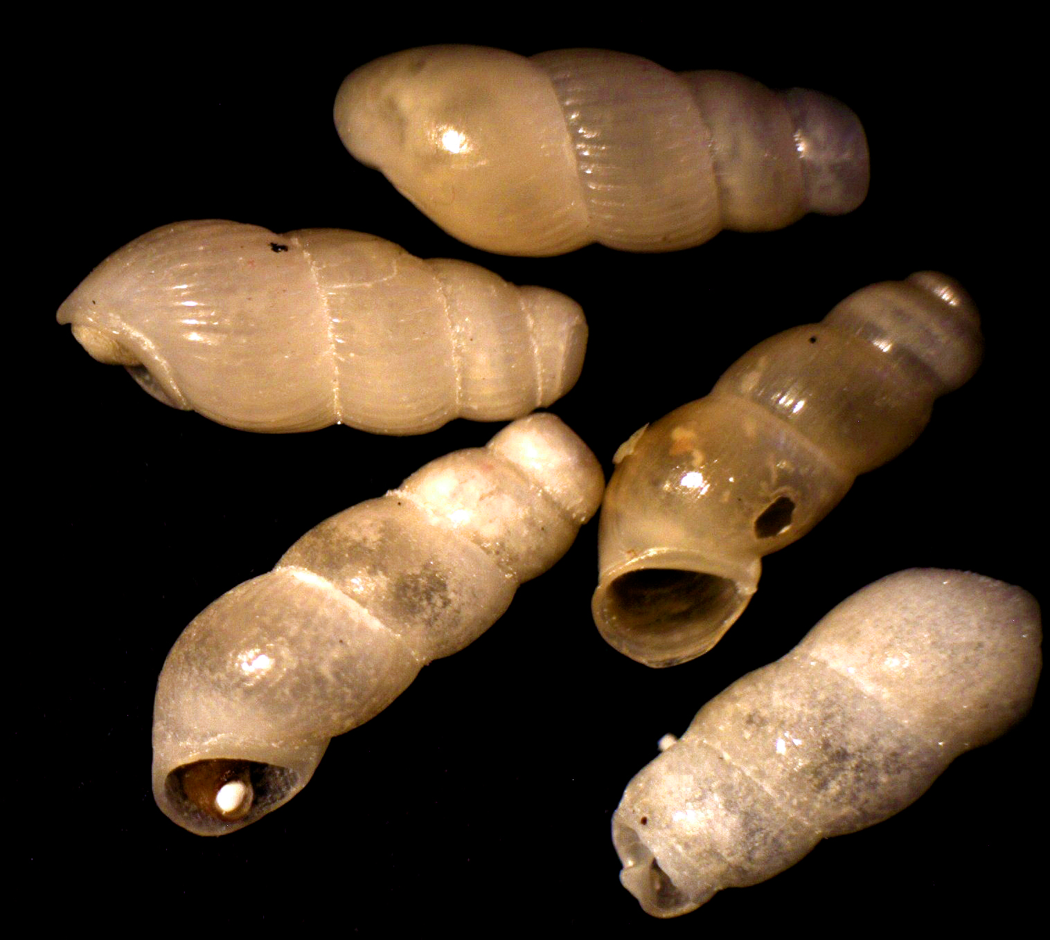 Truncatella vincentiana Cotton, 1942, a sea snail from the family Truncatellidae; South Australia